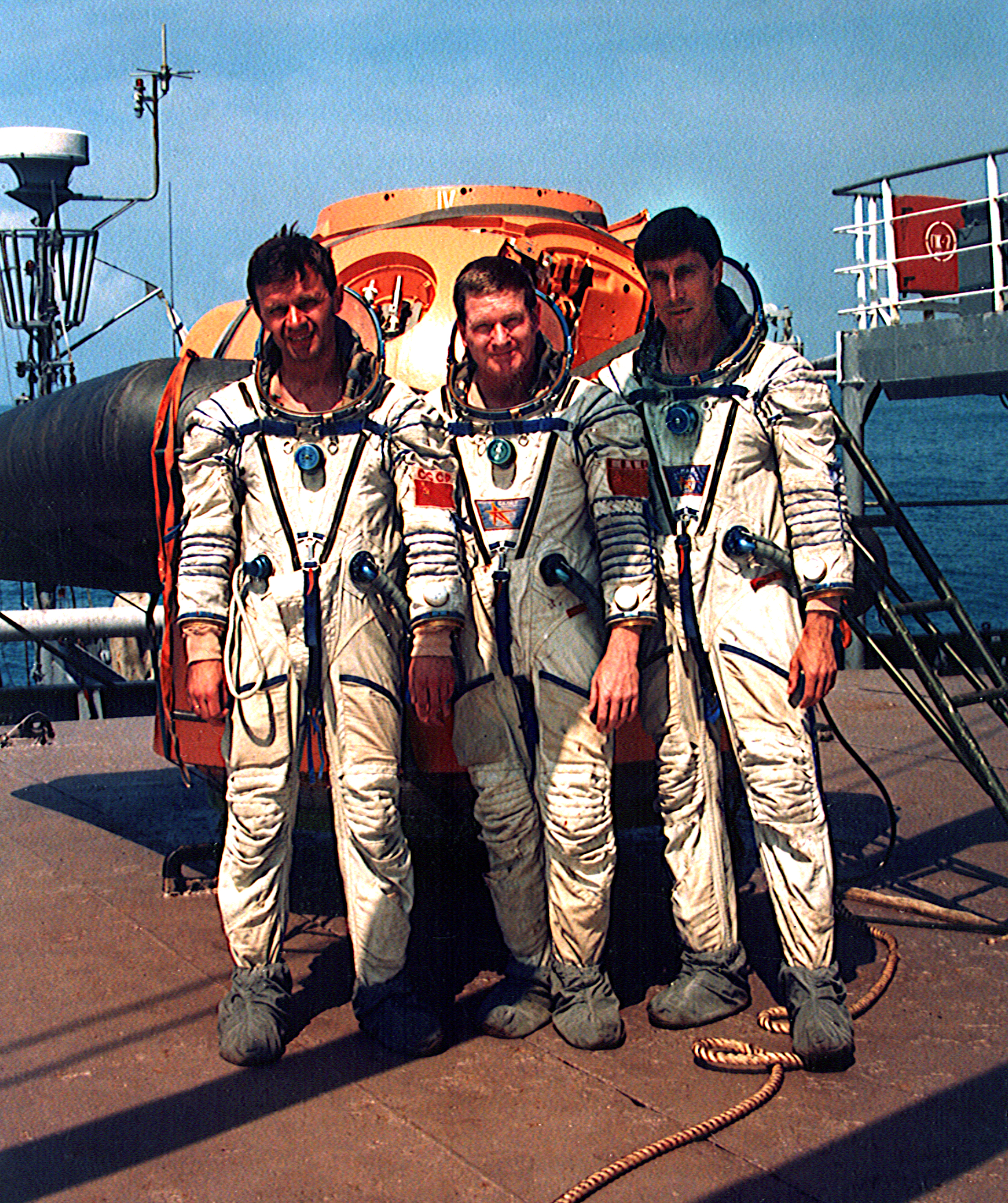 The first crew of the International Space Station pose aboard a Black Sea freighter before beginning water survival training recently. From left, they are Soyuz Commander and Russian Cosmonaut Yuri Gidzenko; International Space Station Commander Bill Shepherd; and Flight Engineer and Russian Cosmonaut Sergei Krikalev. In the background is a mockup of the Russian Soyuz spacecraft descent module used in training. The crew is scheduled to be launched to the new station aboard a Soyuz spacecraft in January 1999.